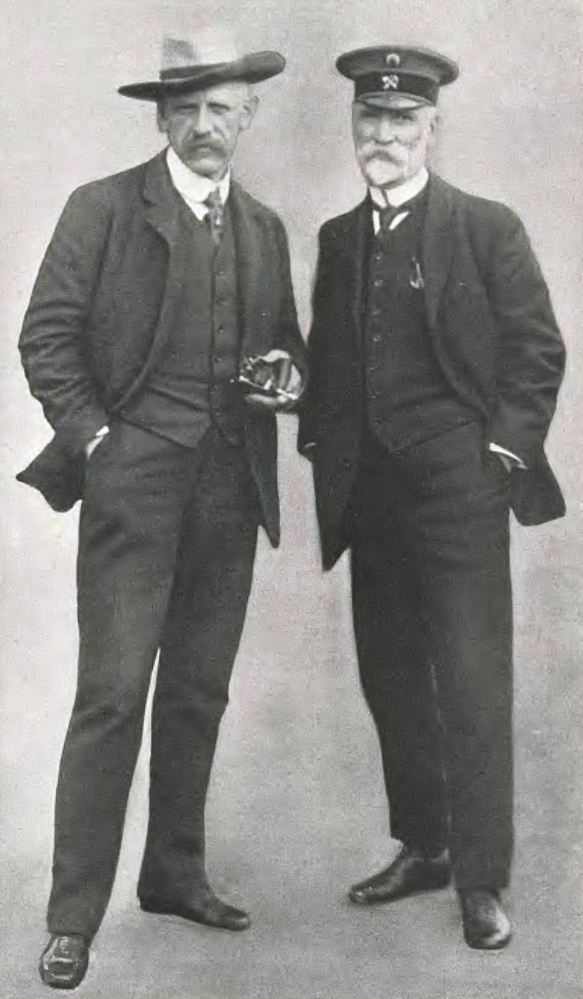 A 1913 photograph of Fridtjof Nansen and a Mr. Wourtzel, identified as "the engineer at the head of all Imperial Russian railway construction". Depicted place: Russland, Irkutsk .